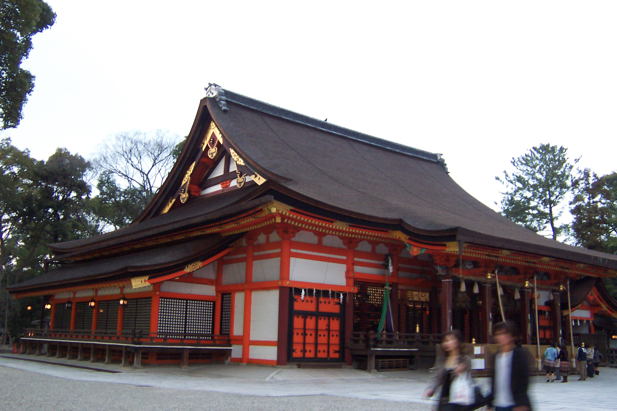 The Main Hall of Yasaka ShrineYasaka Main Hall 01